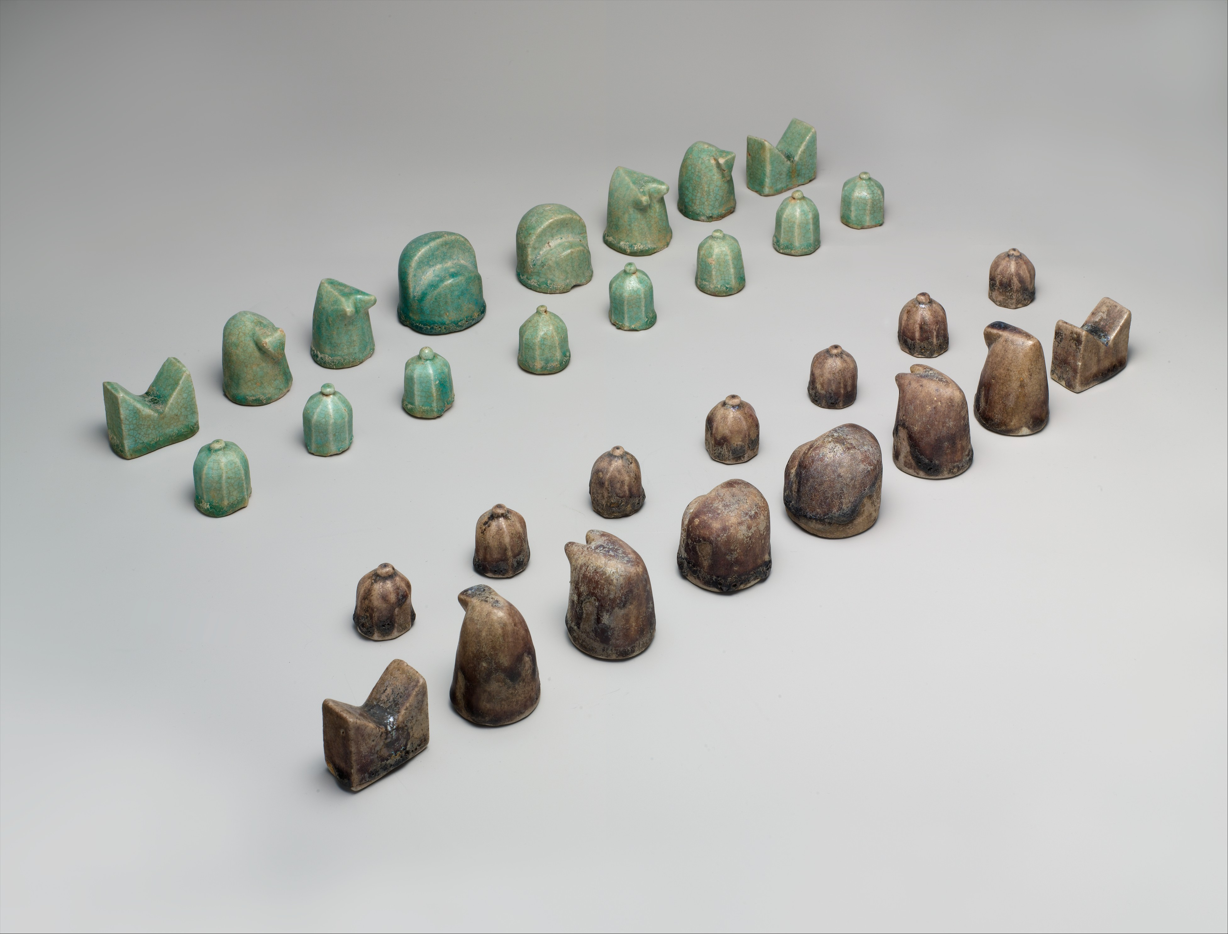 Chess set; Gaming pieces. 12th century This nearly complete chess set is one of the earliest extant examples in the world. The pieces are abstract forms: the shah (king) is represented as a throne; the vizier (the equivalent of the queen) is a smaller throne; the elephant (bishop) has two tusklike protrusions; the horse (knight) has a triangular knob representing its head; the chariot (rook) is rectangular with a wedge at the top; and the pawns are faceted hemispheres with knobs.[1]